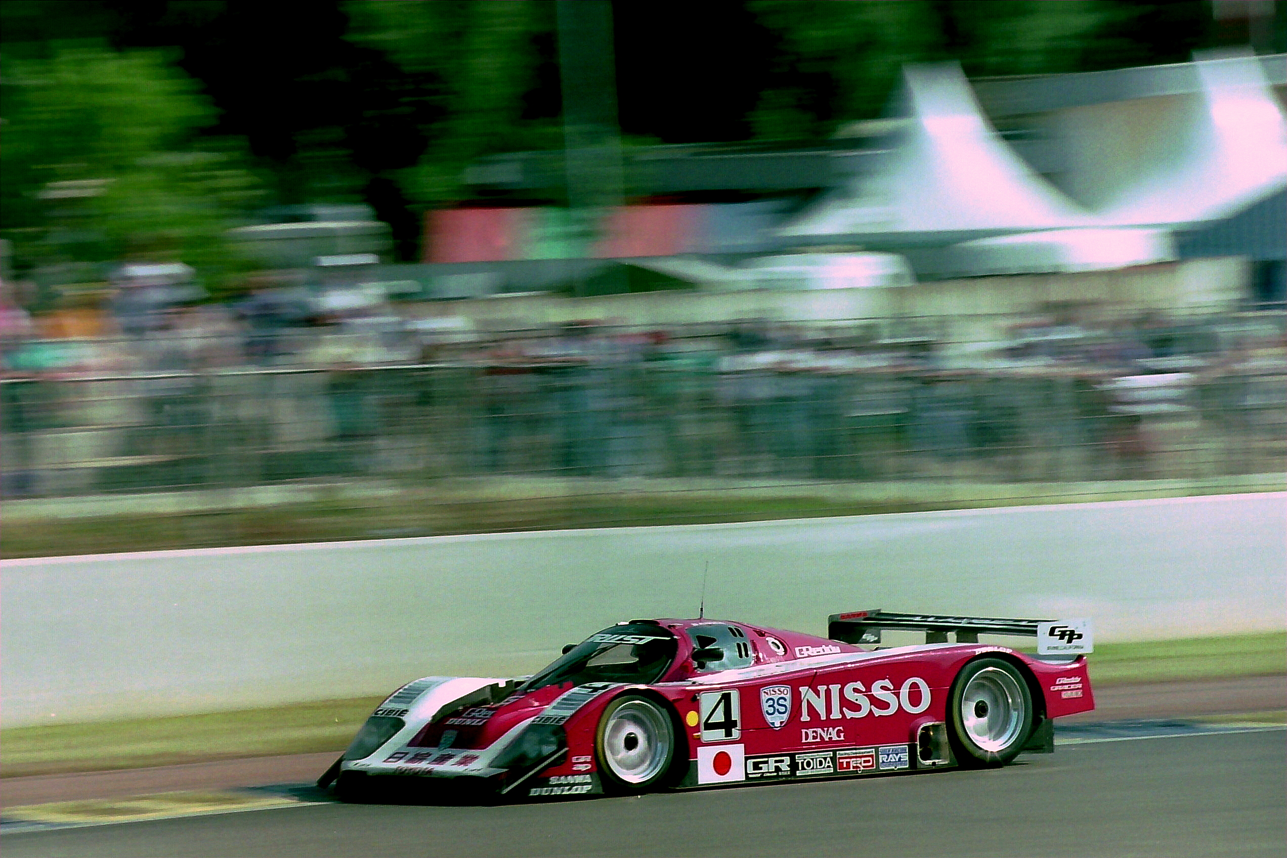 Toyota 94C-V - Bob Wollek, George Fouche & Steven Andskar at the 1994 Le Mans